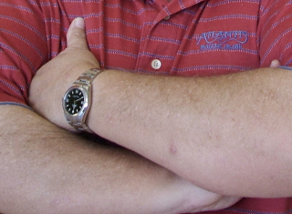 This small bump turned out to Merkel Cell Cancer. Resources